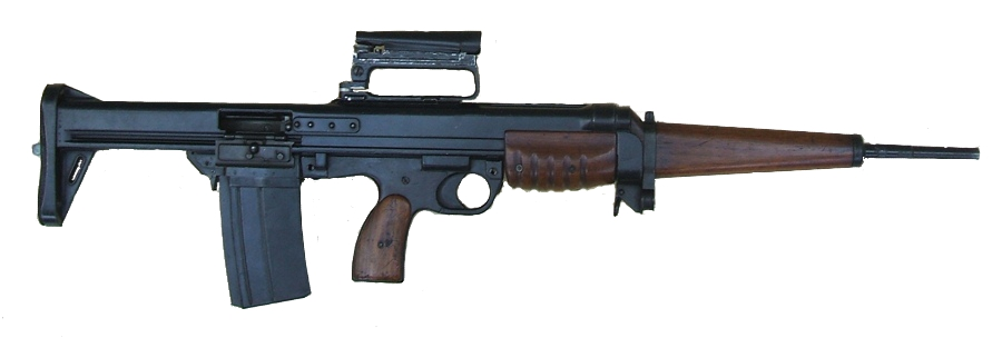 Picture of a prototype British bullpup storm rifle (assault rifle). An EM-1 "Thorpe" rifle chambered for .280 British. Rifle is pointed right with the ejection port facing up.